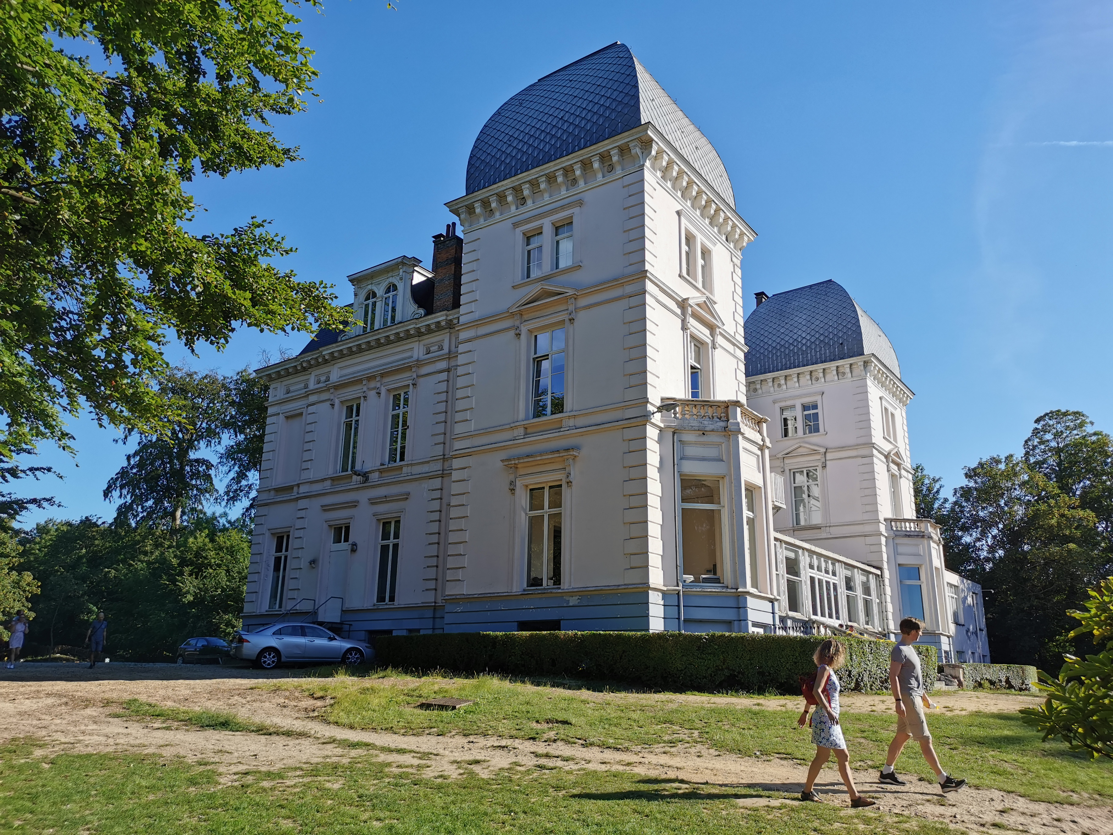 Duden castle